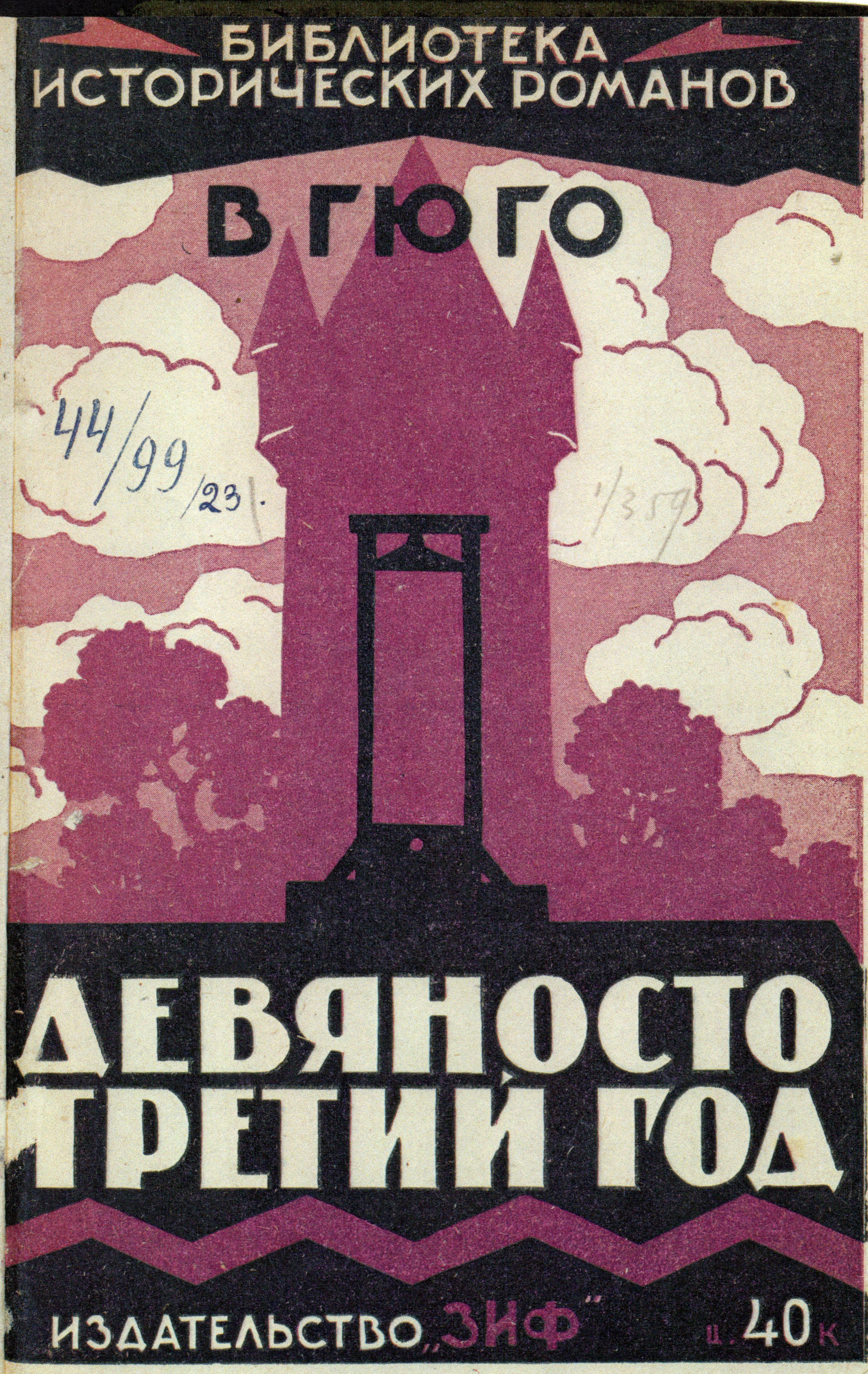 Front page of a soviet translation of Victor Hugo's novel Ninety-three that published in 1928 by Zemlja i fabrika.